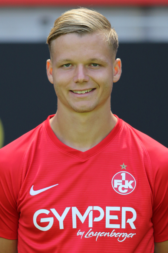 Philipp Herrcher (Nr. 23)